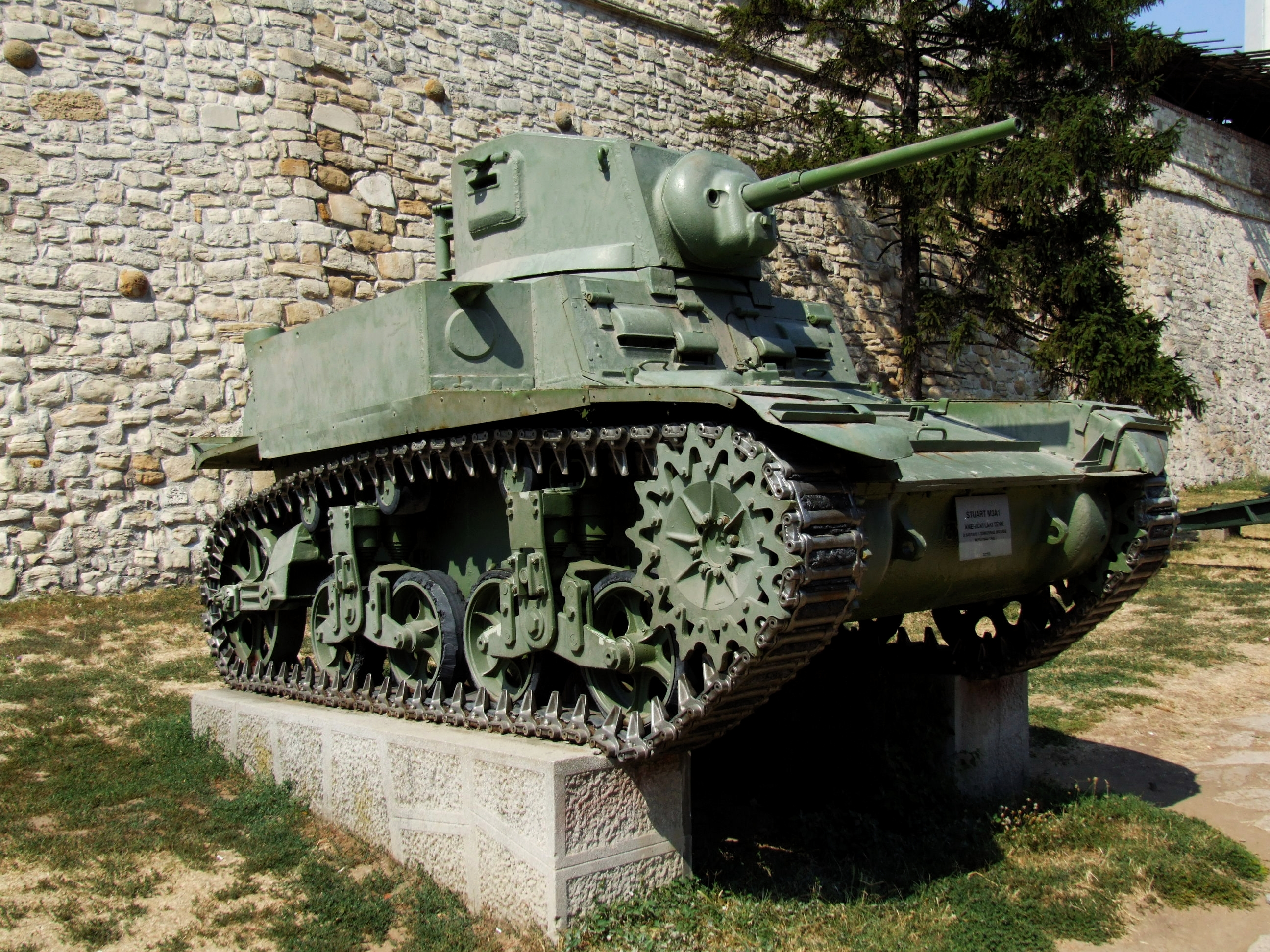 Belgrade Military Museum - tank M3A1 Stuart